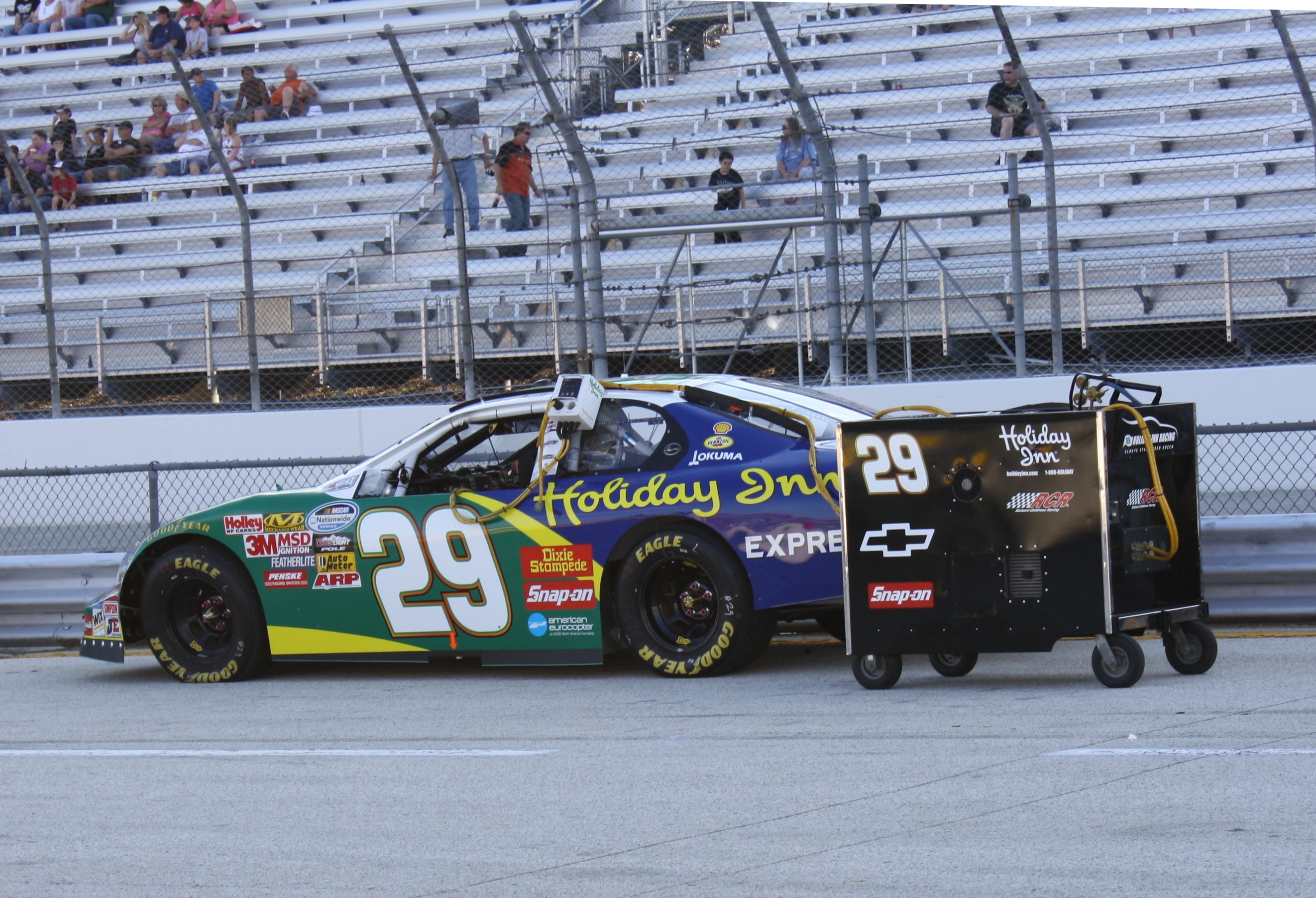 NASCAR driver Stephen Leichts Chevrolet at the 2009 Northern 250 Nationwide Series race at the Milwaukee Mile.